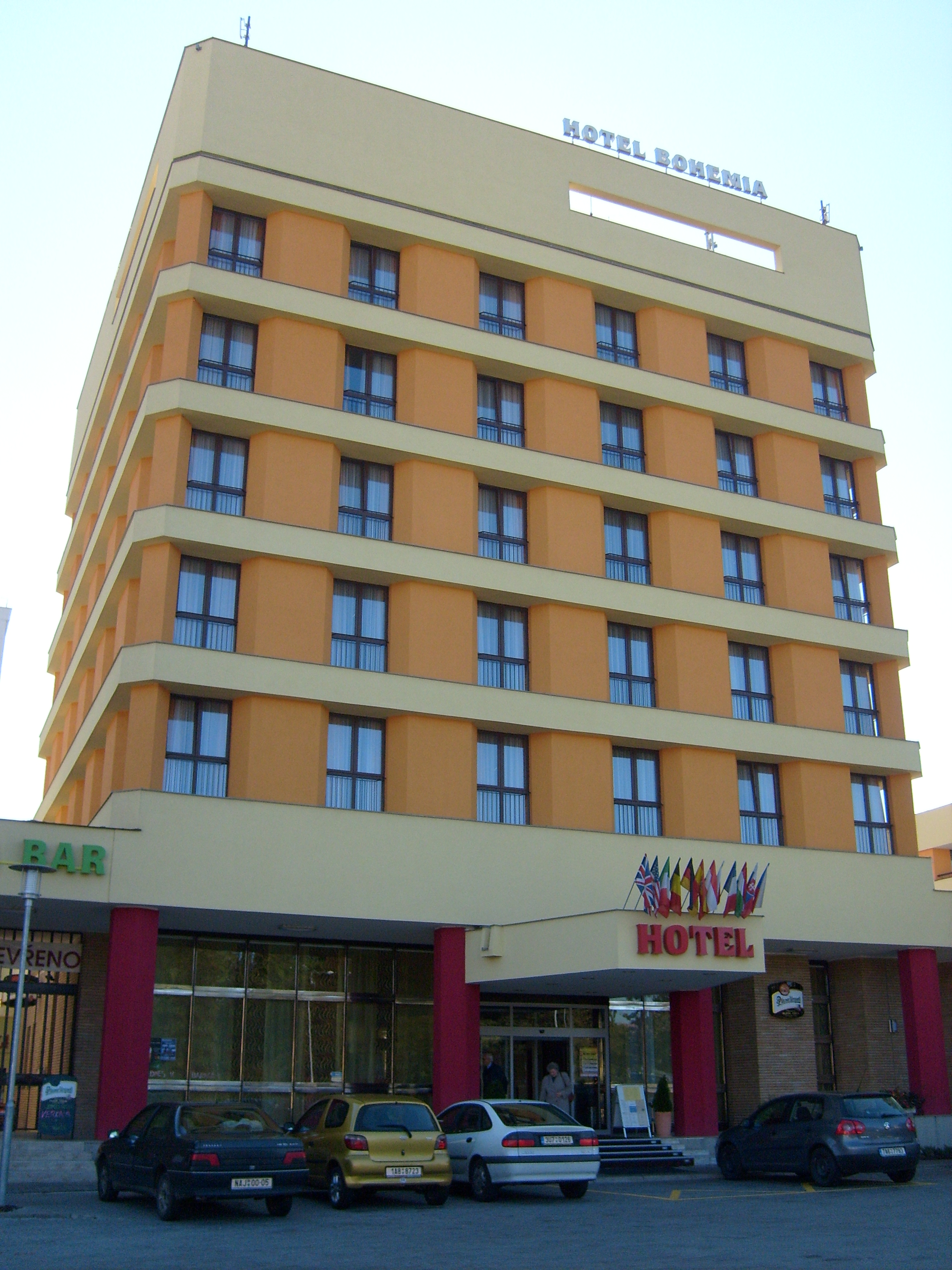 Hotel Bohemia, Chrudim, Pardubice Region, Czech Republic